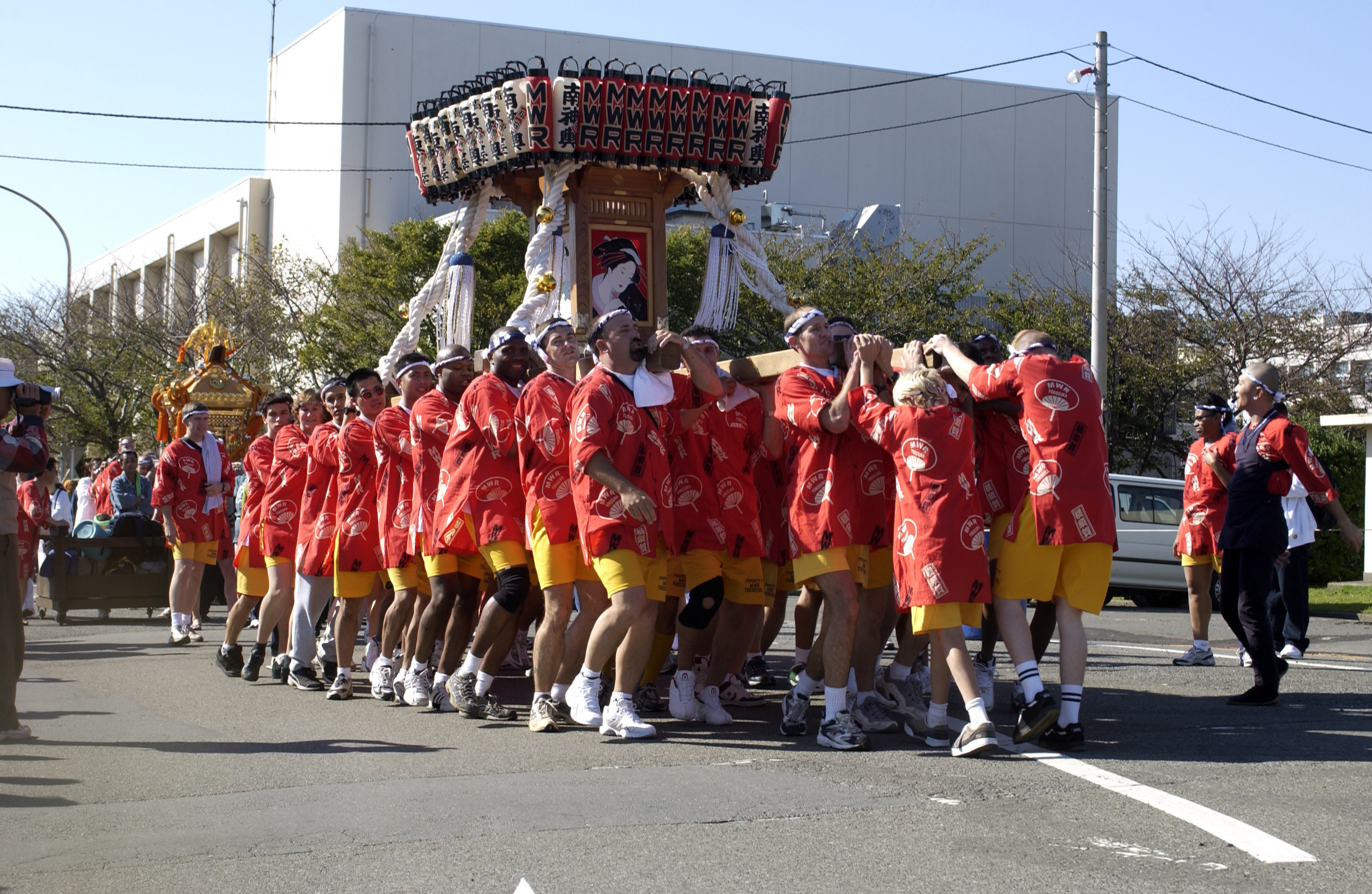 U.S. Navy sailors carry a Shinto shrine during a 2004 parade in Yokosuka. From navy.mil. 041017-N-0120R-055 YOKOSUKA, Japan (Oct. 17, 2004) - Sailors of Fleet Activities Yokosuka participate in a traditional Mikoshi parade, held annually in Yokosuka, Japan. Mikoshis are portable wooden Shinto Shrines that vary in size and are hand-carried through the streets. The Mikoshi Day Parade has been held annually throughout the streets of Japan for the last 28 years, and Sailors from Fleet Activities Yokosuka have participated in this event for the past 11 years with the ceremony ending on the base track field. Navy photo by Photographer's Mate 2nd Class William H. Ramsey